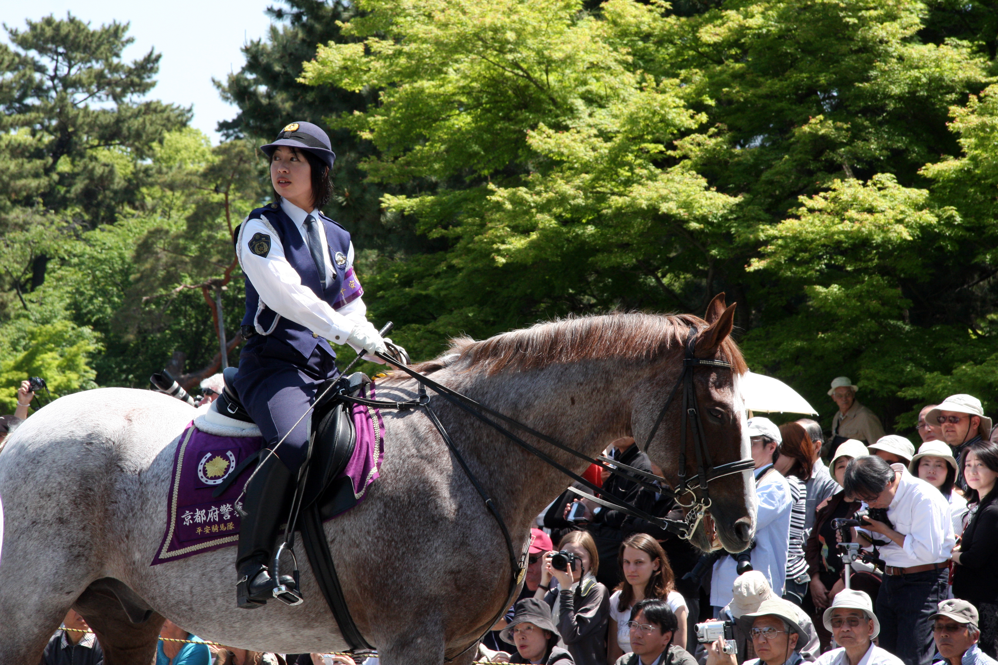 Keeping the peace against the rampaging hoardes of festival-goers. Keeping the peace against the rampaging hoardes of festival-goers.